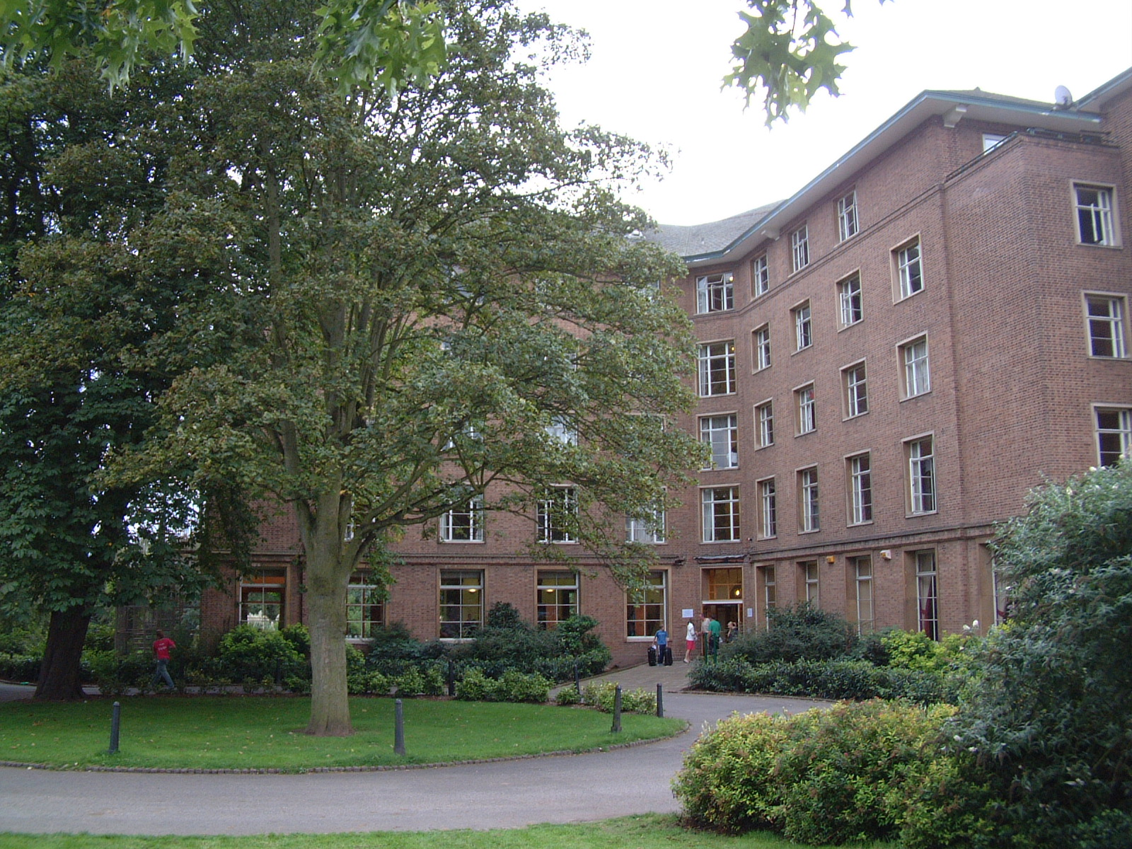 Nightingale Hall, a Hall of Residence at the University of Nottingham.